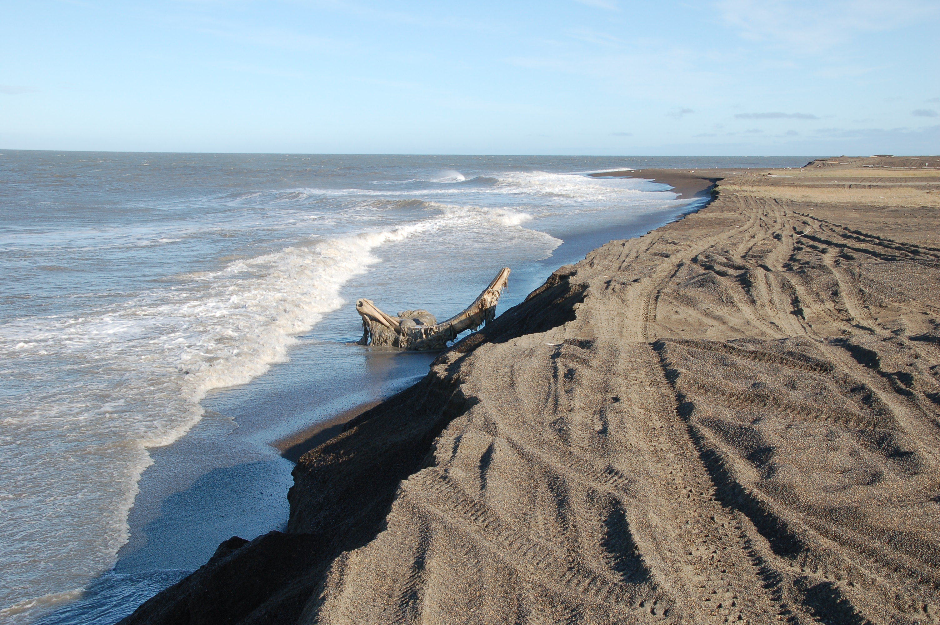 Point Barrow Alaska, Northernmost point of the United States. The object on the beach is a Bowhead whale jawbone